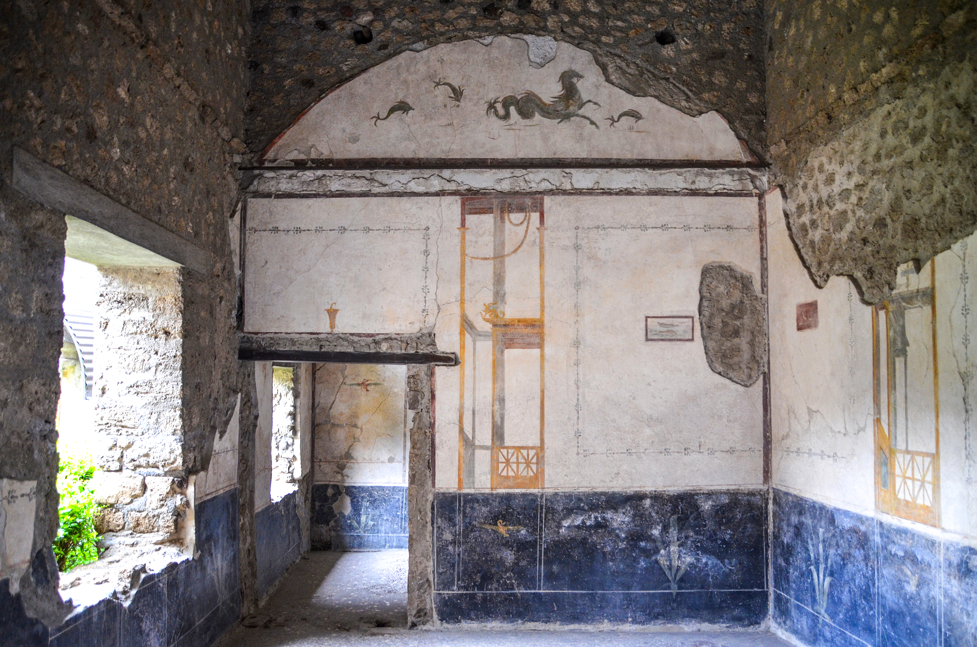 The tablinum decorated in the Fourth Style, House of the Prince of Naples, Pompeii, Italy 2nd century BCE - 1st century CE